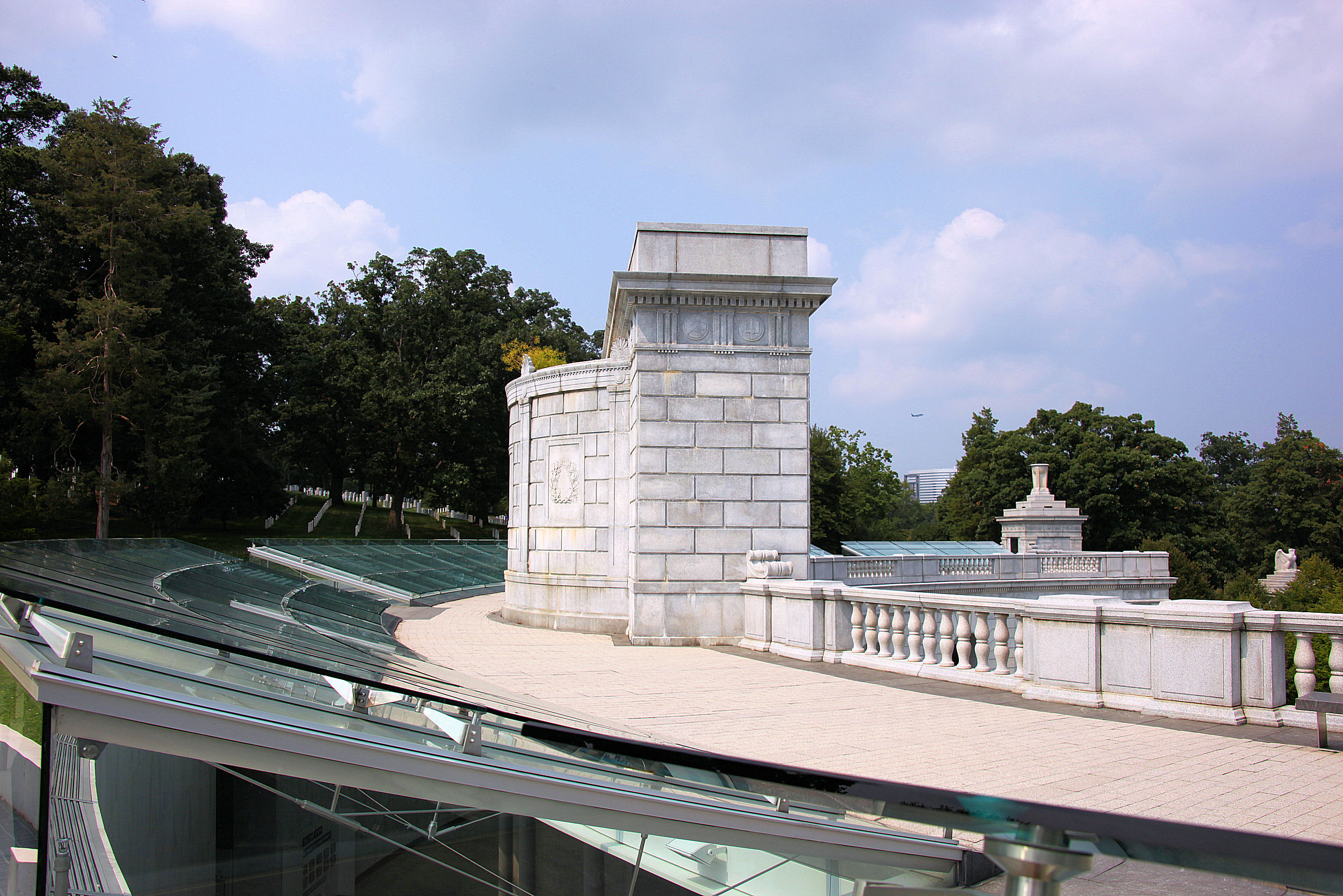 A view of the Women in Military Service for America Memorial. Originally known as the Hemicycle, this ceremonial entrance to Arlington National Cemetery was opened in 1932. Along the Arlington Memorial Bridge and the George Washington Memorial Parkway (then known as the Mount Vernon Memorial Parkway), it was constructed in celebration of the bicentennial of George Washington's birthday. Unfinished, unused, and in disrepair by the early 1980s, it was transformed into the Women in Military Service for America Memorial and opened to the public on October 20, 1997. This image was taken after emerging from one of the stairs in the south side of the Hemicycle which leads up to the terrace on top of the memorial. The photographer is looking north across the terrace at some of the glass panels which form the rear of the memorial and act as a skylight for the exhibit gallery below. Also visible is the rear of the apse of the Hemicycle. To the middle right can just be barely seen two of the pillars which form the north ceremonial Schley Gate of Arlington National Cemetery.